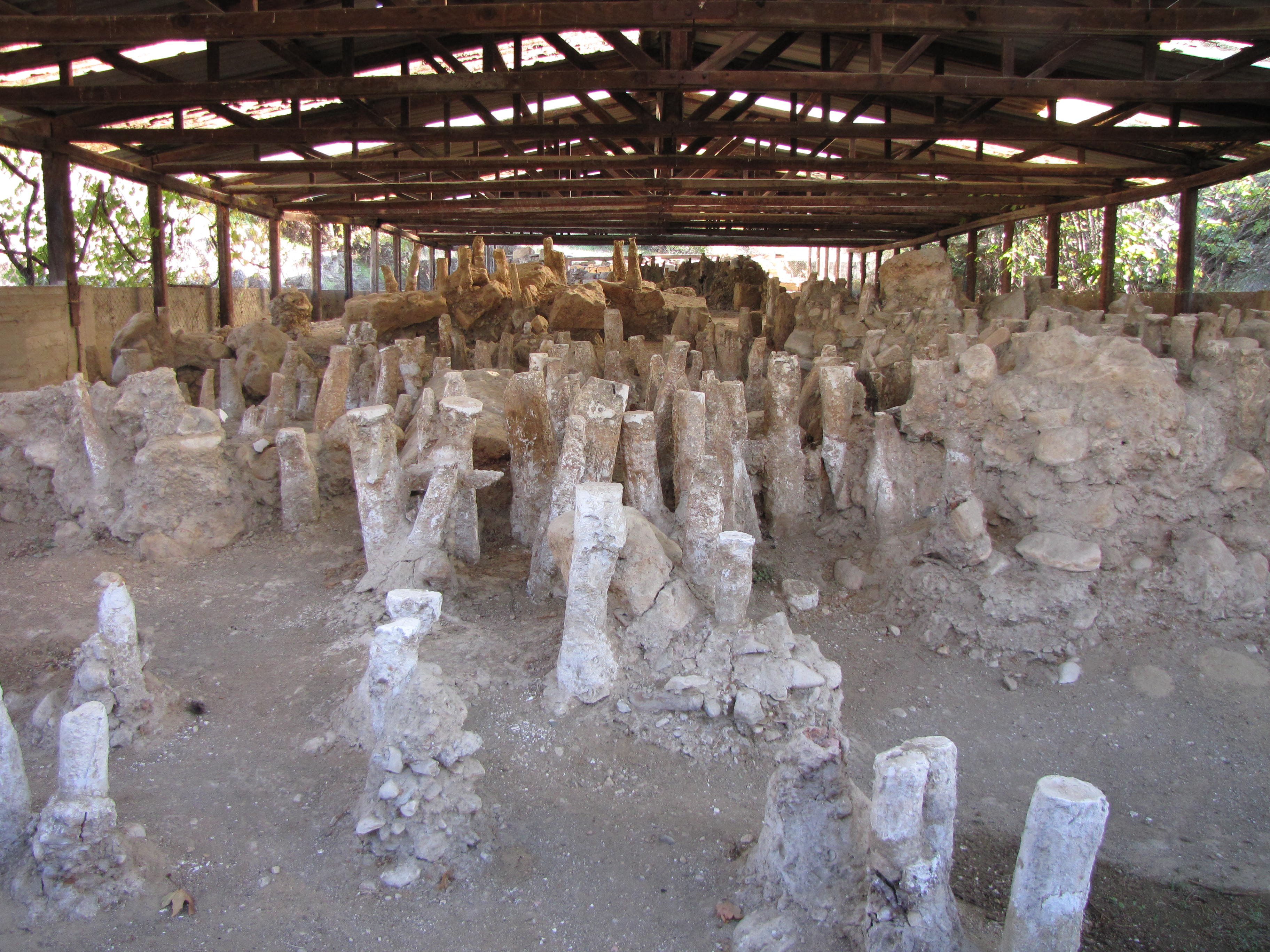 Remnants of the wooden bridge